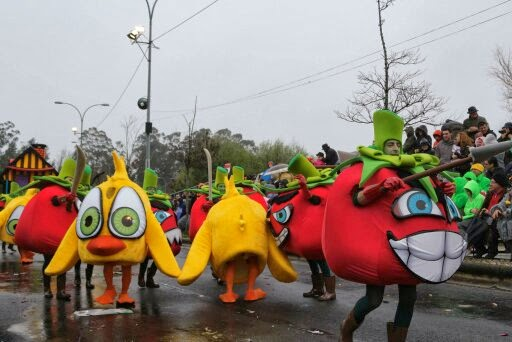 Ovar's (Portugal) Grupo Carnavalesco Os Hippies' 2014 Carnival parade